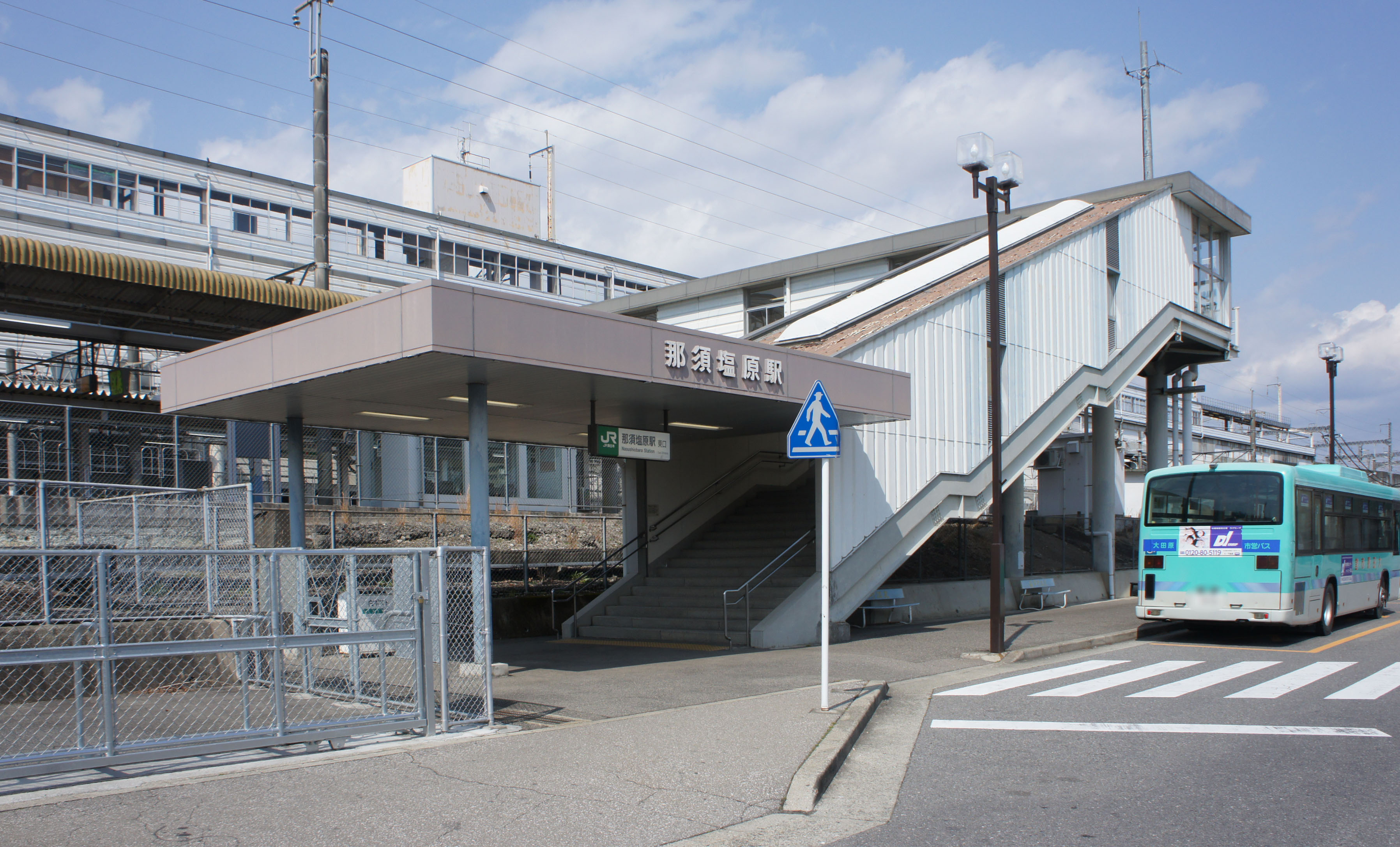 East Exit of JR Nasu-Shiobara Station Sony NEX-3